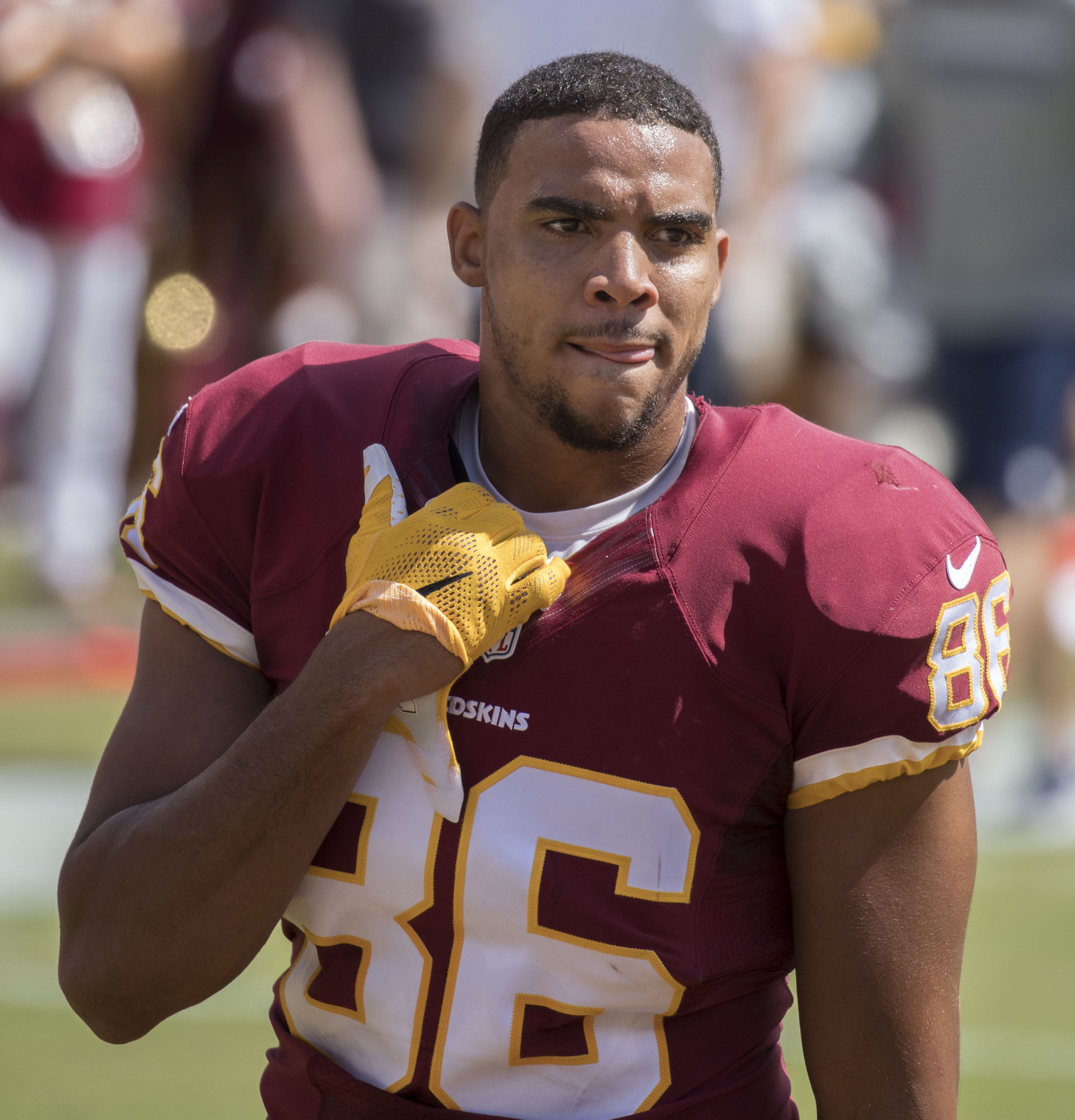 Washington Redskins tight end, Jordan Reed, in a game against the Dallas Cowboys on September 18, 2016.